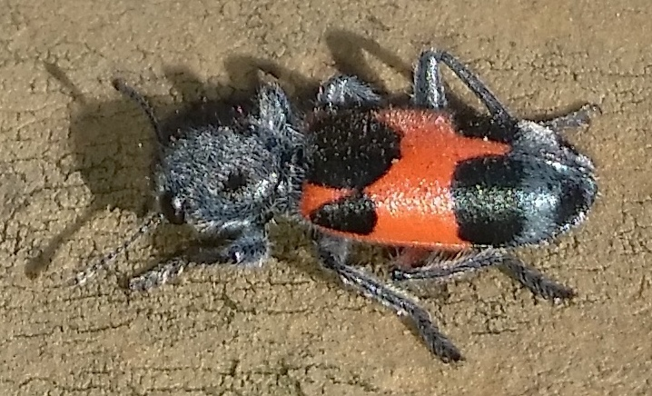 Enoclerus eximius, Family: Checkered Beetles, Melinda took this picture., ID Confidence: 98